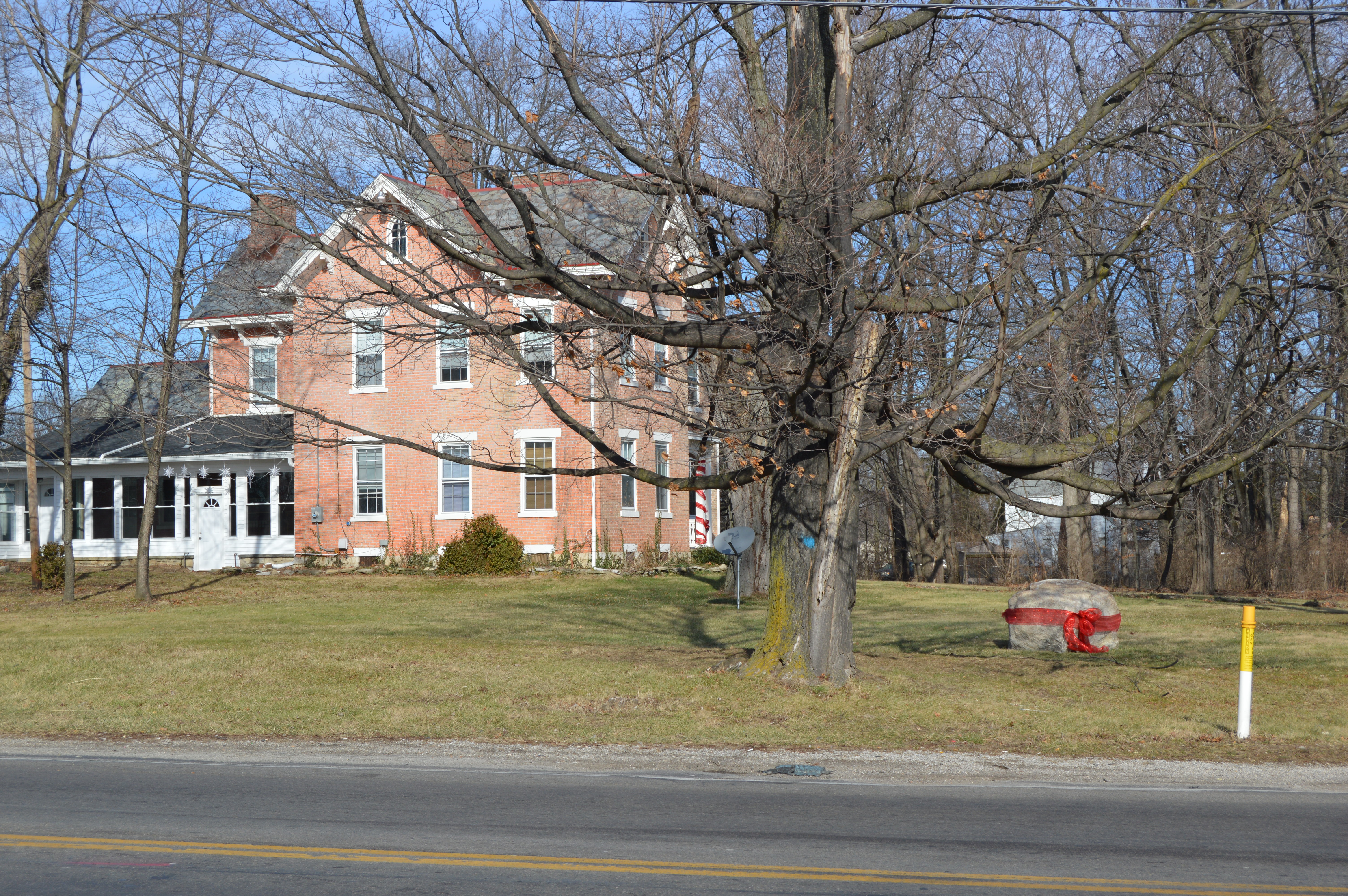 Overview from the south of the Jackson Fort, an archaeological enclosure that surrounds the house located at 3845 Westerville Road (State Route 3) between Columbus and Worthington in Blendon Township, Franklin County, Ohio, United States. The site is listed on the National Register of Historic Places.